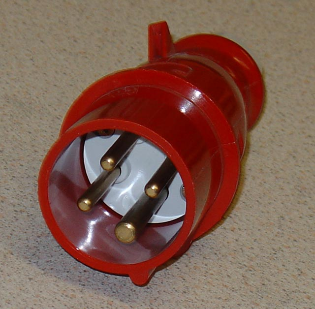 16-Amp 3P+PE plug according to EN60309-2. The colour red indicates 380 to 480 Volts